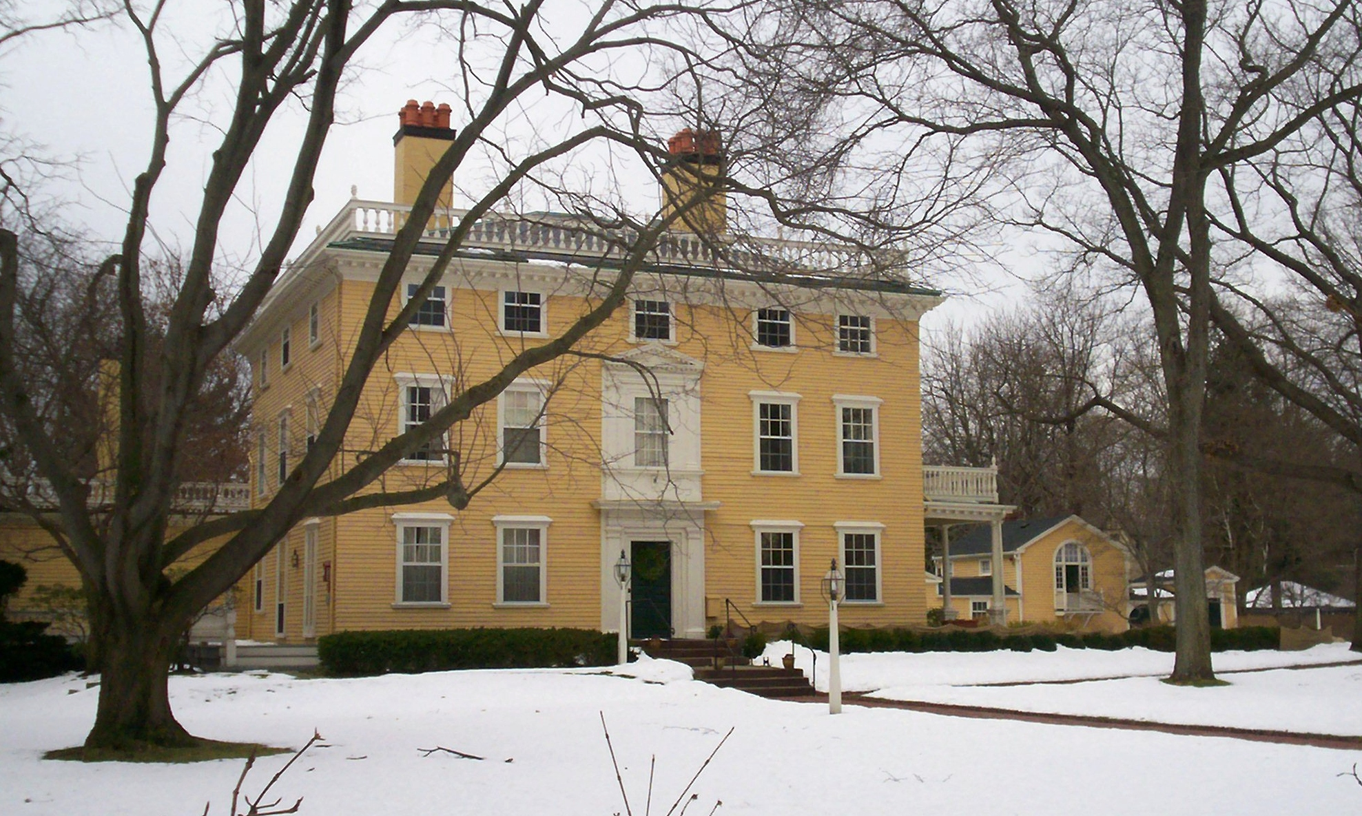 Picture of Elmwood, former home of poet James Russell Lowell and U.S. vice-president Elbridge Gerry in Cambridge, MA - December, 2008.